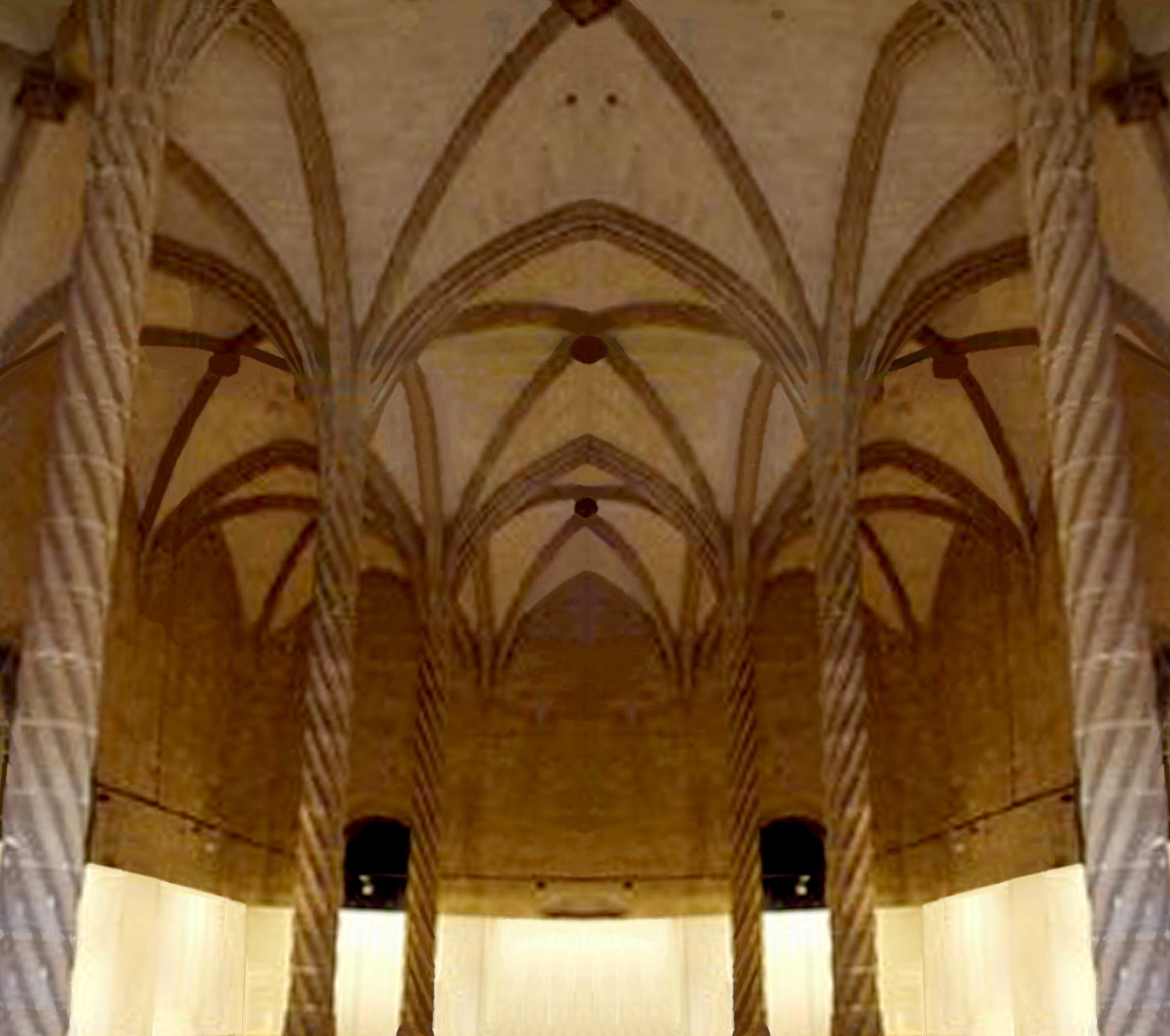 Palma de Majorca's Exchange